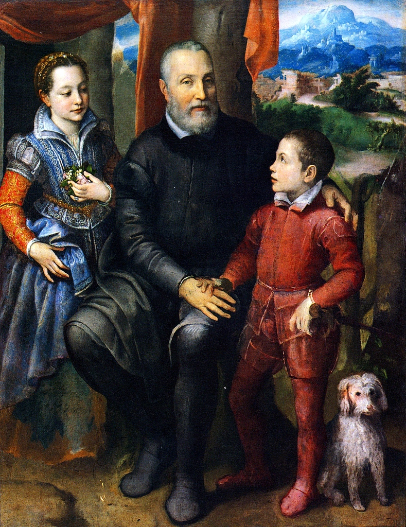 Portrait of the artist's family: her father Amilcare, sister Minerva, and brother Asdrubalelabel QS:Len,"Portrait of the artist's family: her father Amilcare, sister Minerva, and brother Asdrubale" label QS:Lit,"Ritratto di famiglia con il padre Amilcare, la sorella Minerva e il fratello Asdrubale"